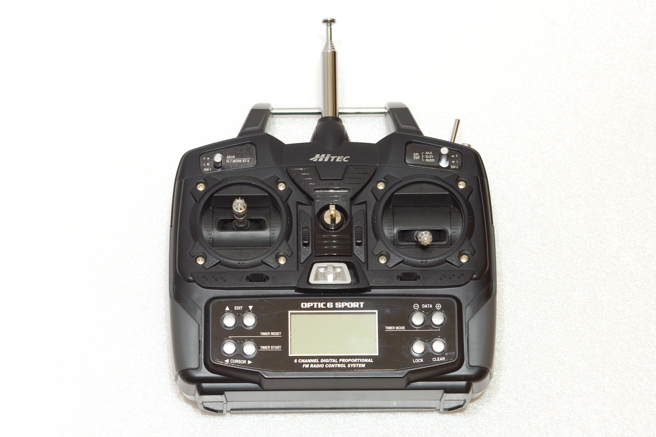 Hitec optic 6 sport. 6 channel transmitter for RC models